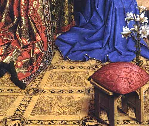 The Annunciation (van Eyck, Washington) by Jan van Eyck, held by the National Gallery of Art, in Washington D.C..